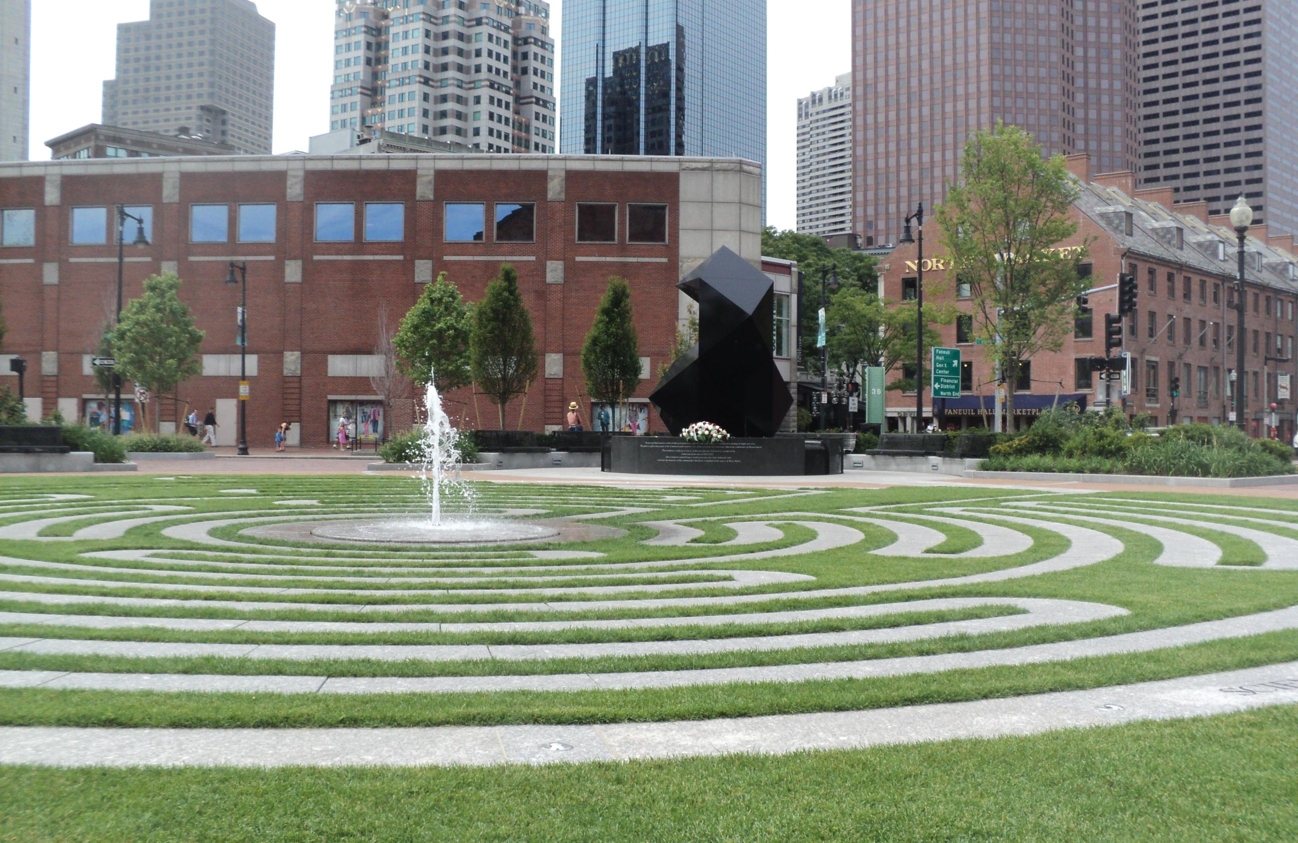 The Armenian Heritage Park in Rose Kennedy Greenway in downtown Boston, MA